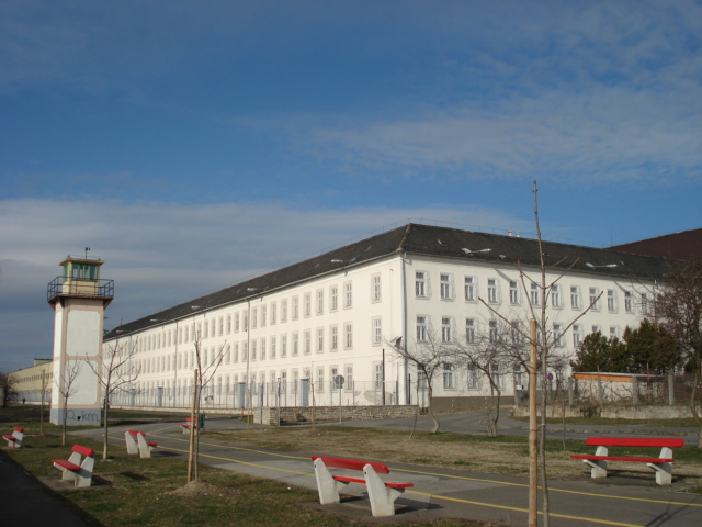 Prison in Vac, taken by David Sallay, Feb 2007.- Hungary, Vác, Köztársaság street 62-64.